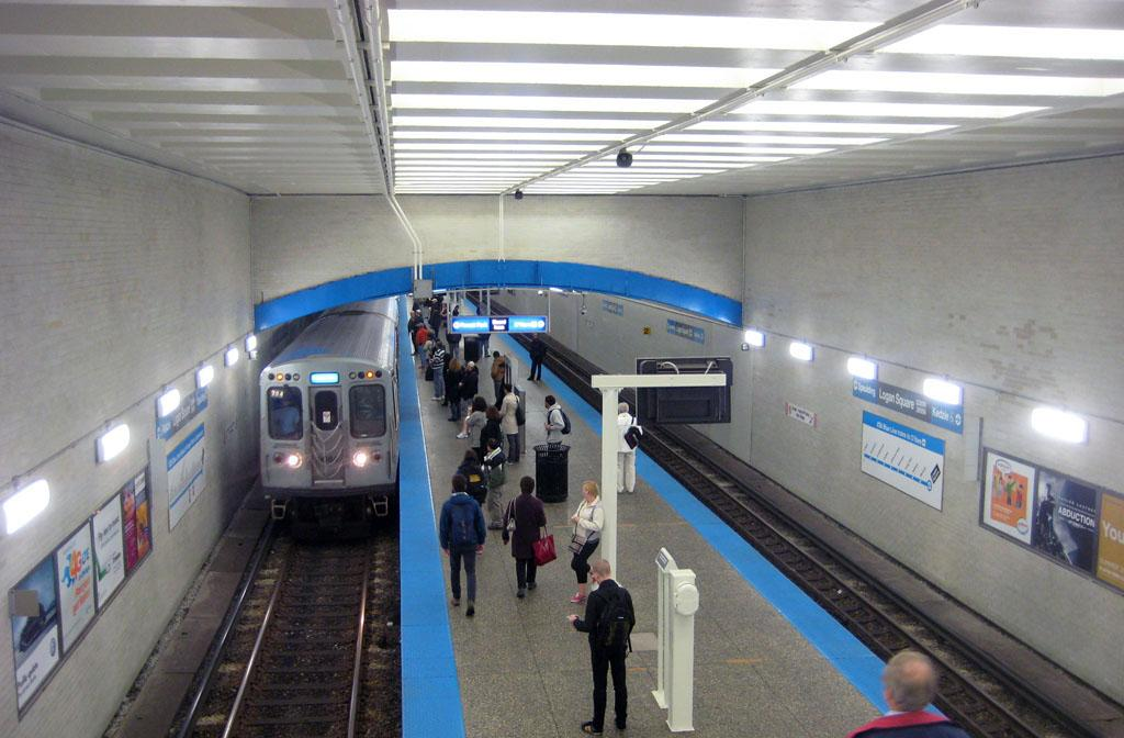 The island platform of the Logan Square subway station on September 27, 2011, looking north from the Kedzie fare mezzanine following improvements as part of the CTA's Station Renewal Progam. The tunnel walls were cleaned, lighting improved, and new directional signs installed to improve the customer experience.